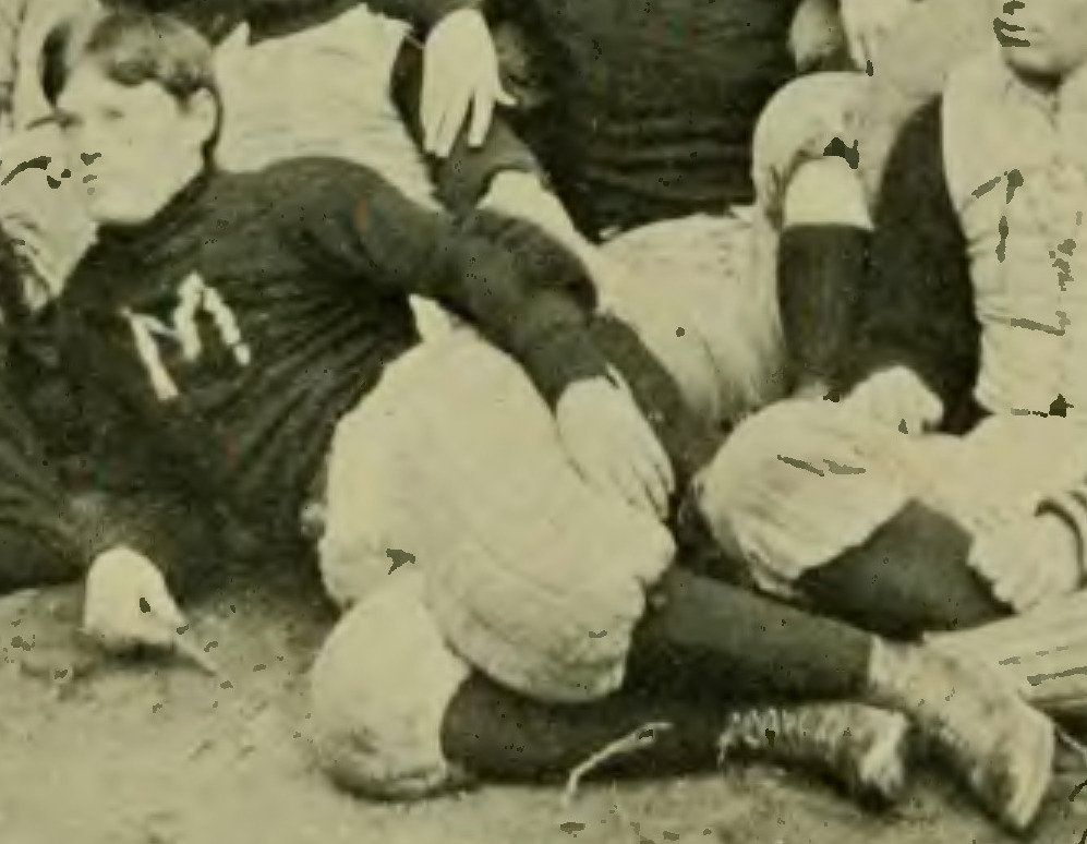 Annual of the Schools of Law, Medicine, and Dentistry of the University of Maryland, Baltimore